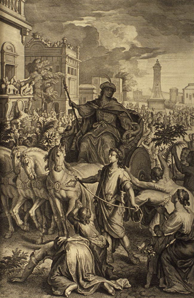 Joseph Rides in a Chariot through Egypt; as in Genesis 42:43: "And he made him to ride in the second chariot which he had; and they cried before him, Bow the knee: and he made him ruler over all the land of Egypt."; illustration from the 1728 Figures de la Bible; illustrated by Gerard Hoet (1648–1733) and others, and published by P. de Hondt in The Hague; image courtesy Bizzell Bible Collection, University of Oklahoma Libraries